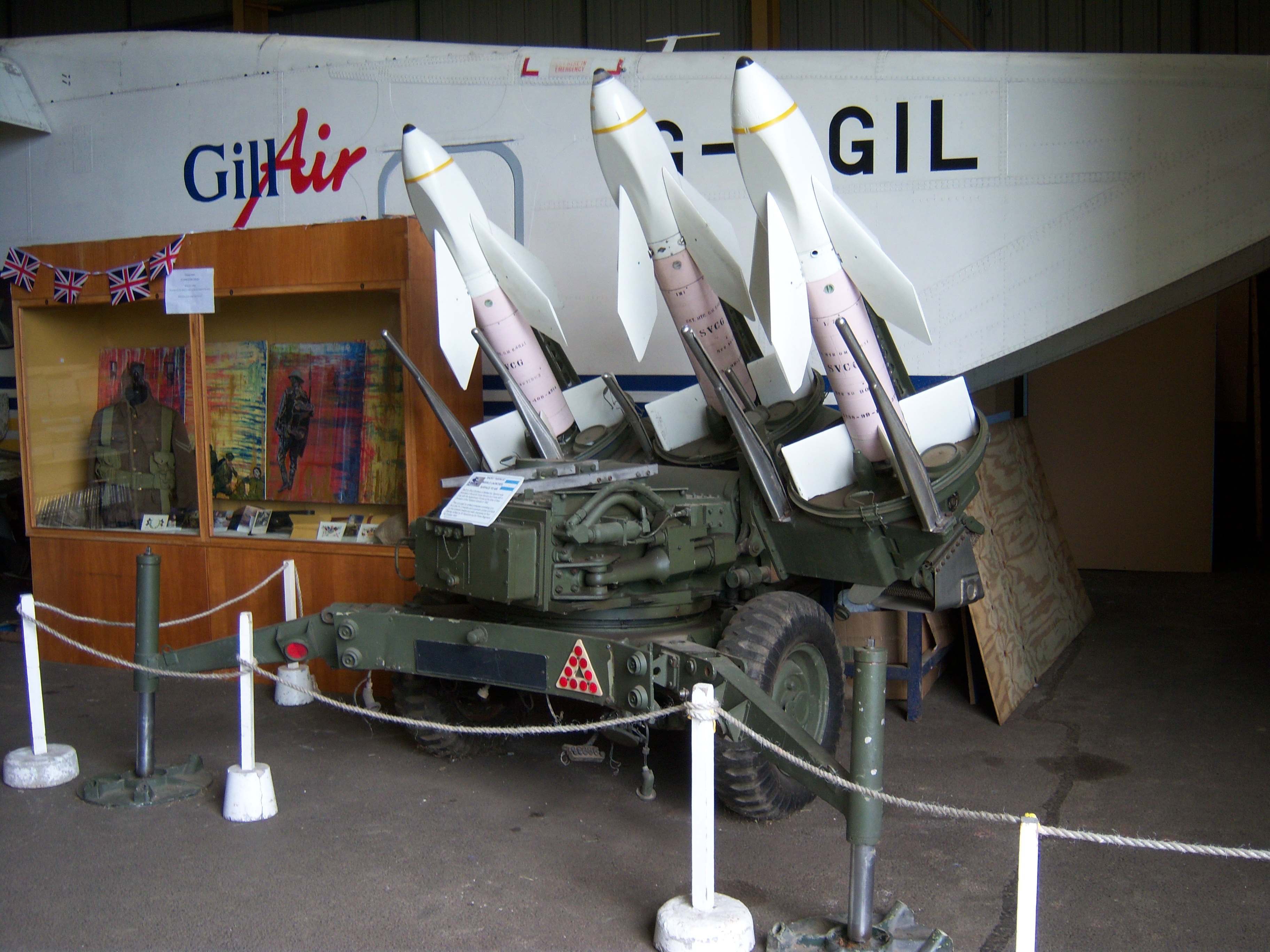 Seen at the NELSAM site in Sunderland.